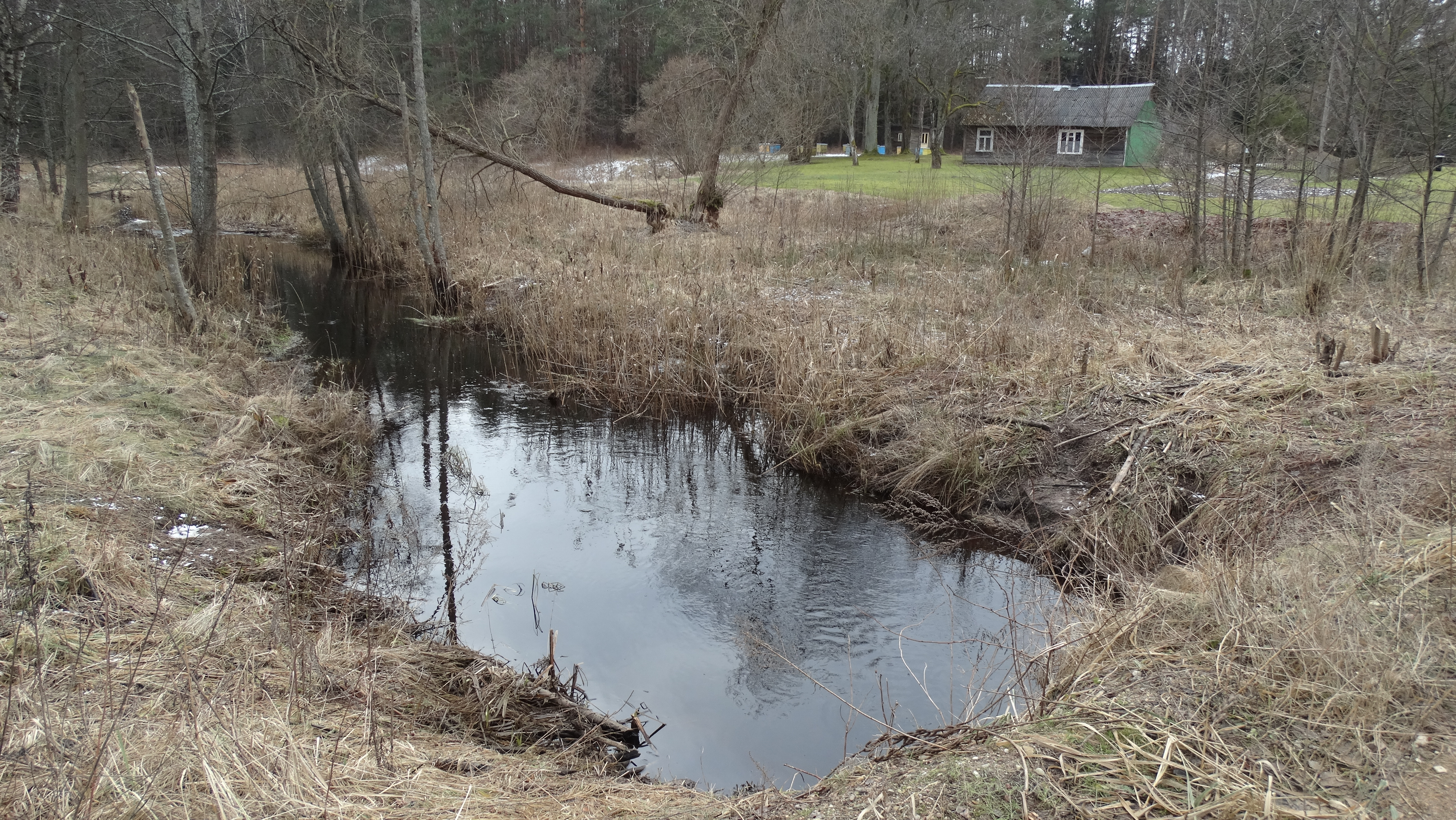 Jūrė River in Naudžiai, Kazlų Rūda municipality, Lithuania